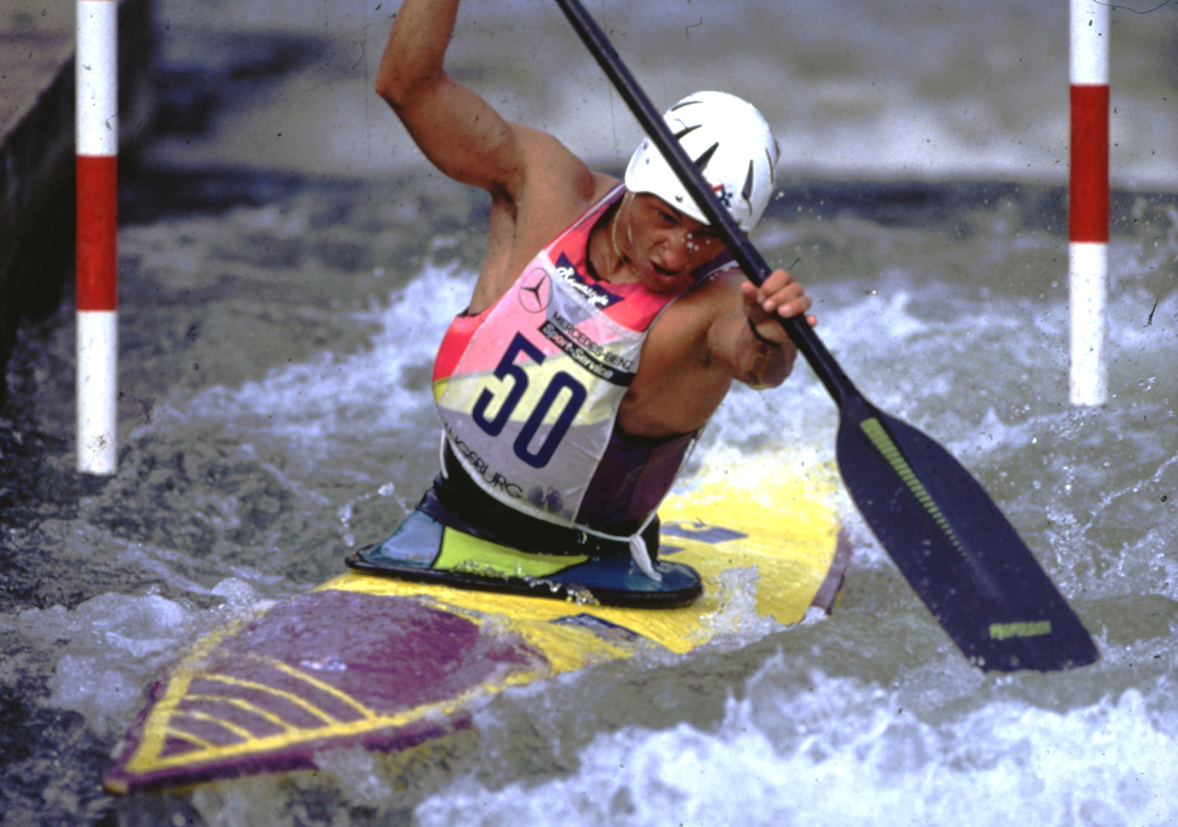 Thierry Humeau paddling upstream gate in Augsburg, Germany